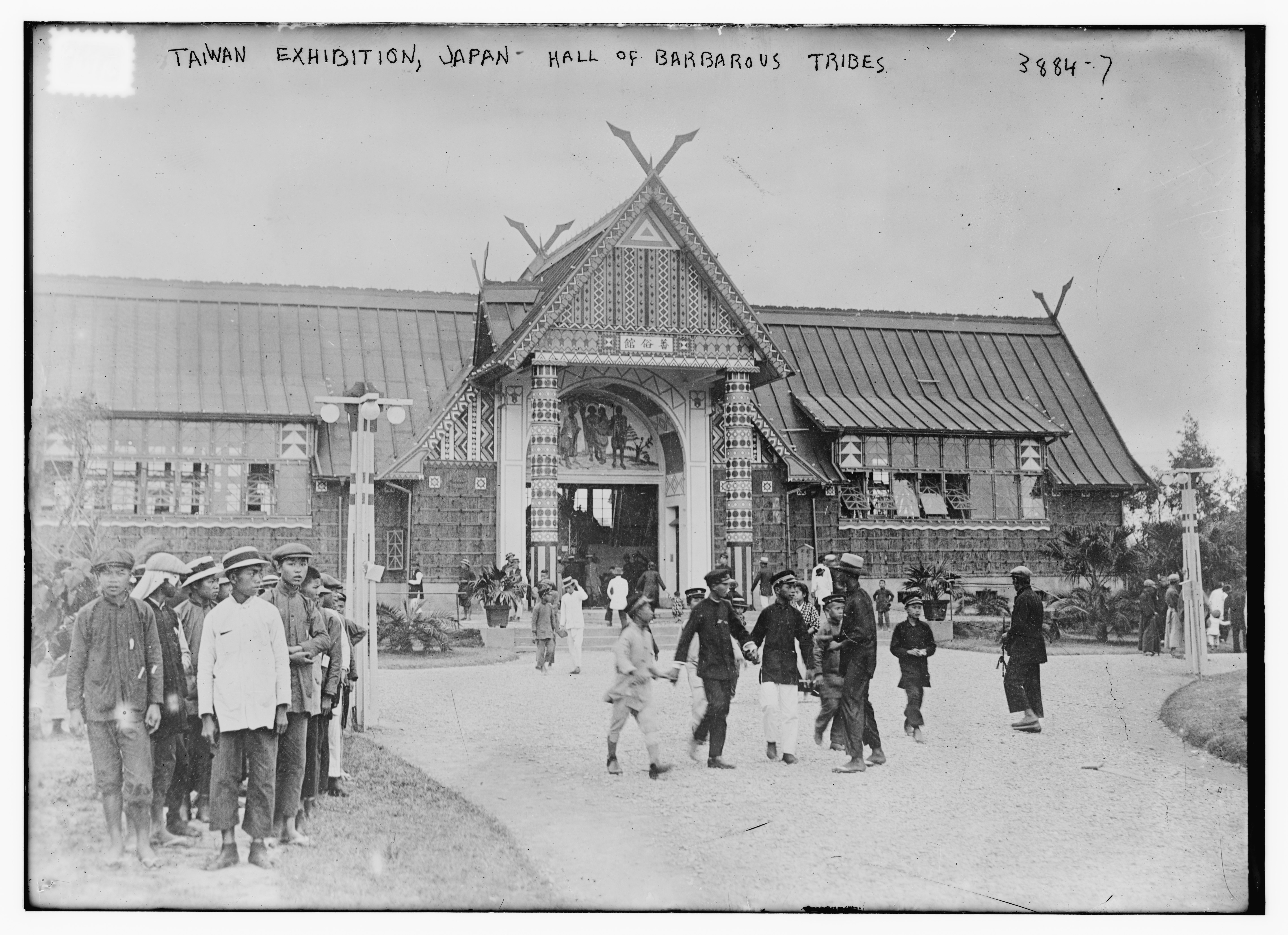 Title: Taiwan Exhibition, Japan, Hall of Barbarous Tribes Abstract/medium: 1 negative : glass ; 5 x 7 in. or smaller.